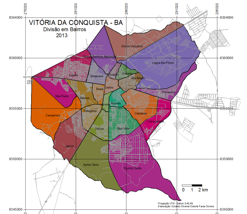 Vitoria da conquista map